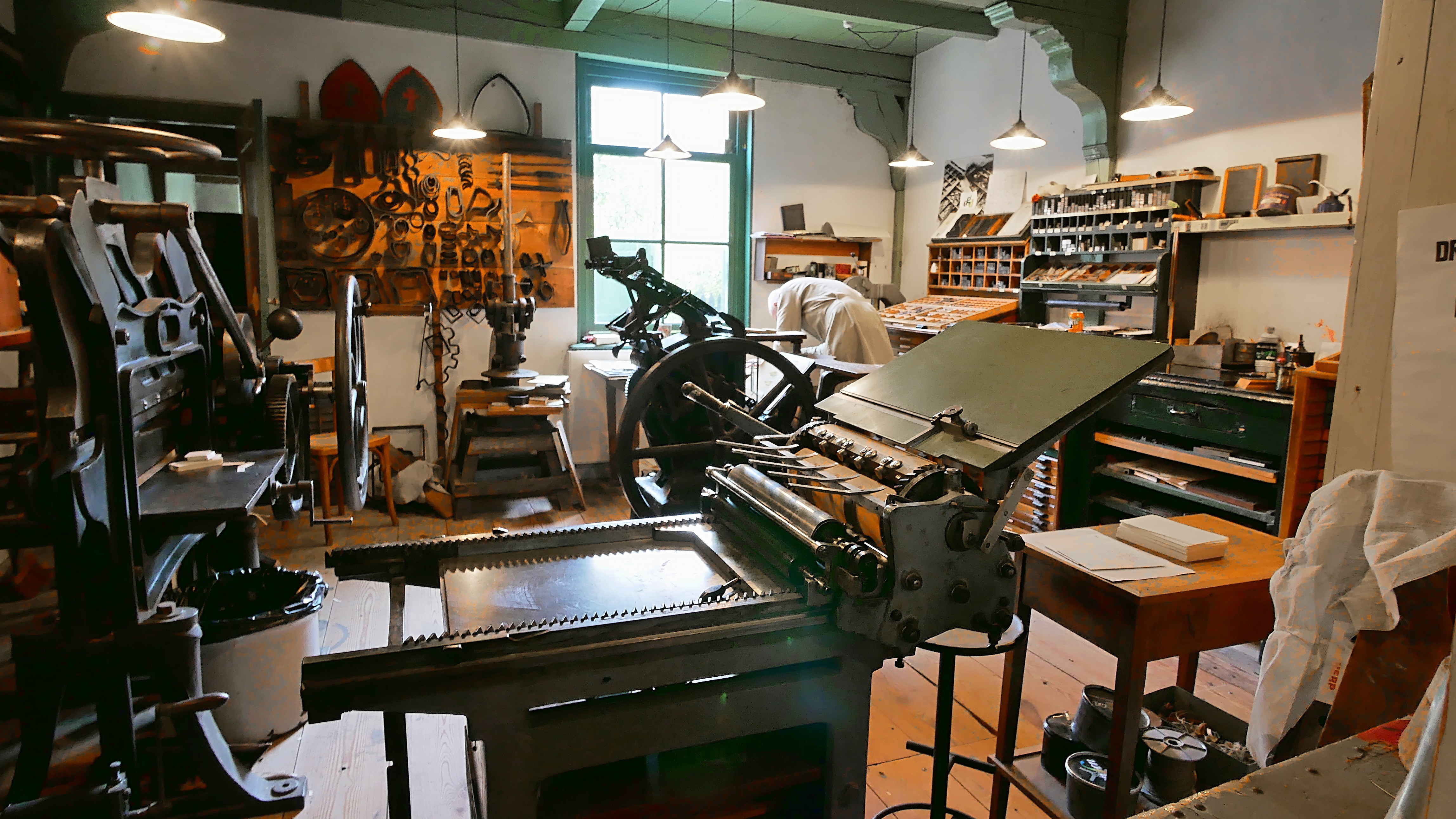 Zuiderzeemuseum Buitenmuseum Workshops - printer